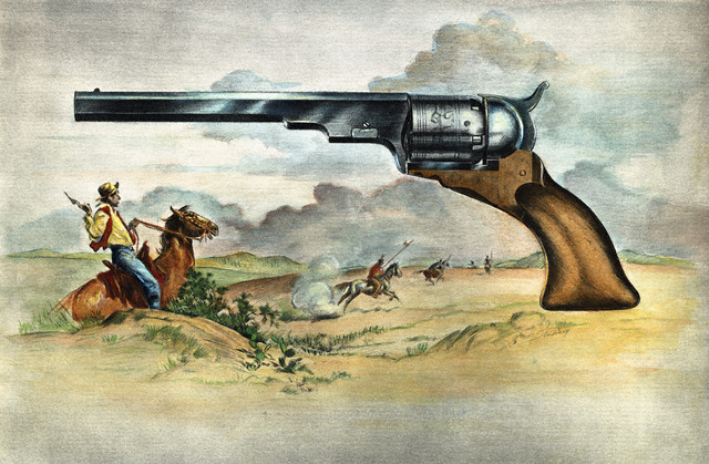 Illustration of a Colt Texas Paterson 1836 (.40 cal) firearm with western motif. Drawing courtesy of Colt's Patent Firearms Manufacturing Company.